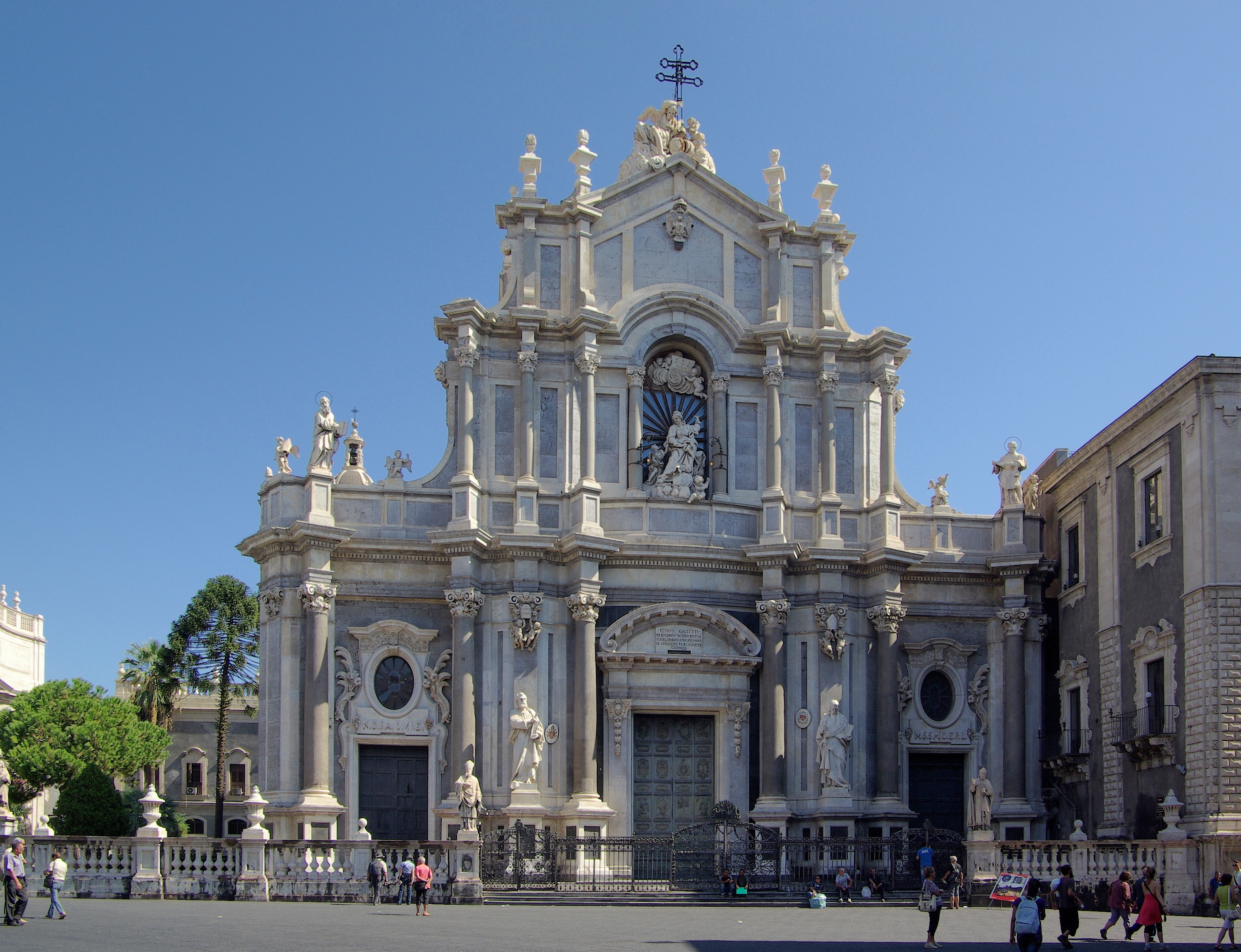 Italy, Sicily, Catanaia, cathedral Sant' Agata